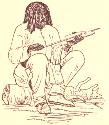 A Shoshone man using an arrow shaft straightener.